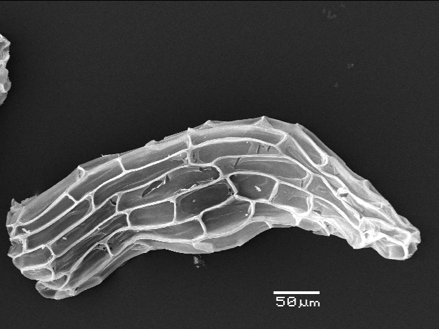 Dictyostega orobanchoides seed, SEM